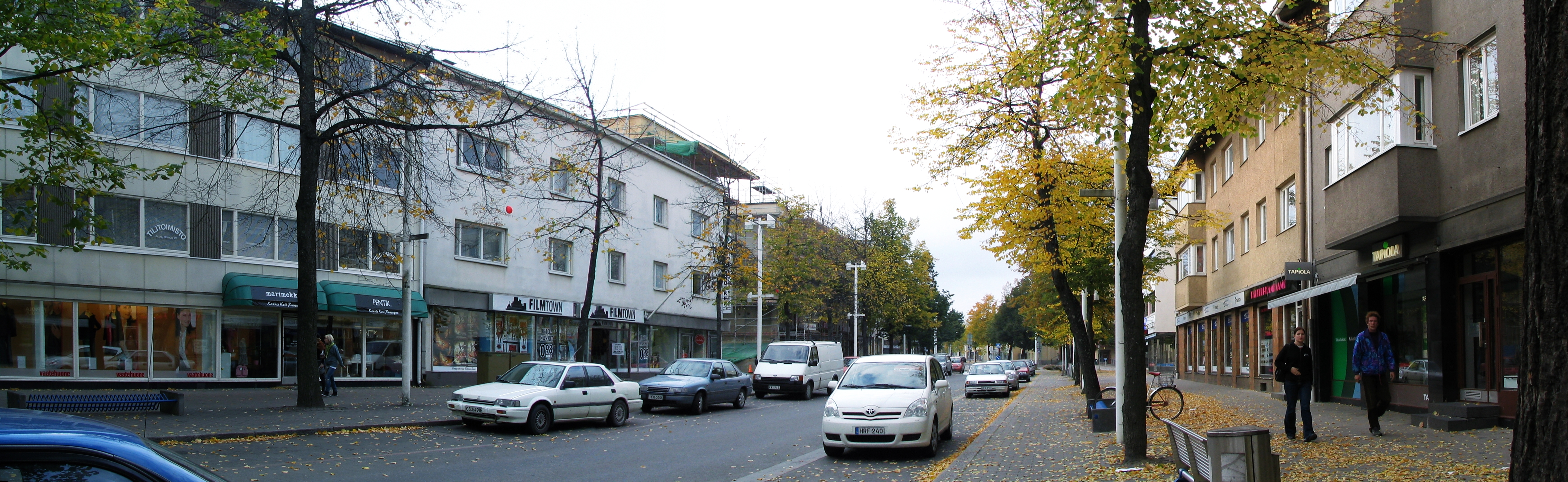 View from Valtakatu street, Valkeakoski, Finland